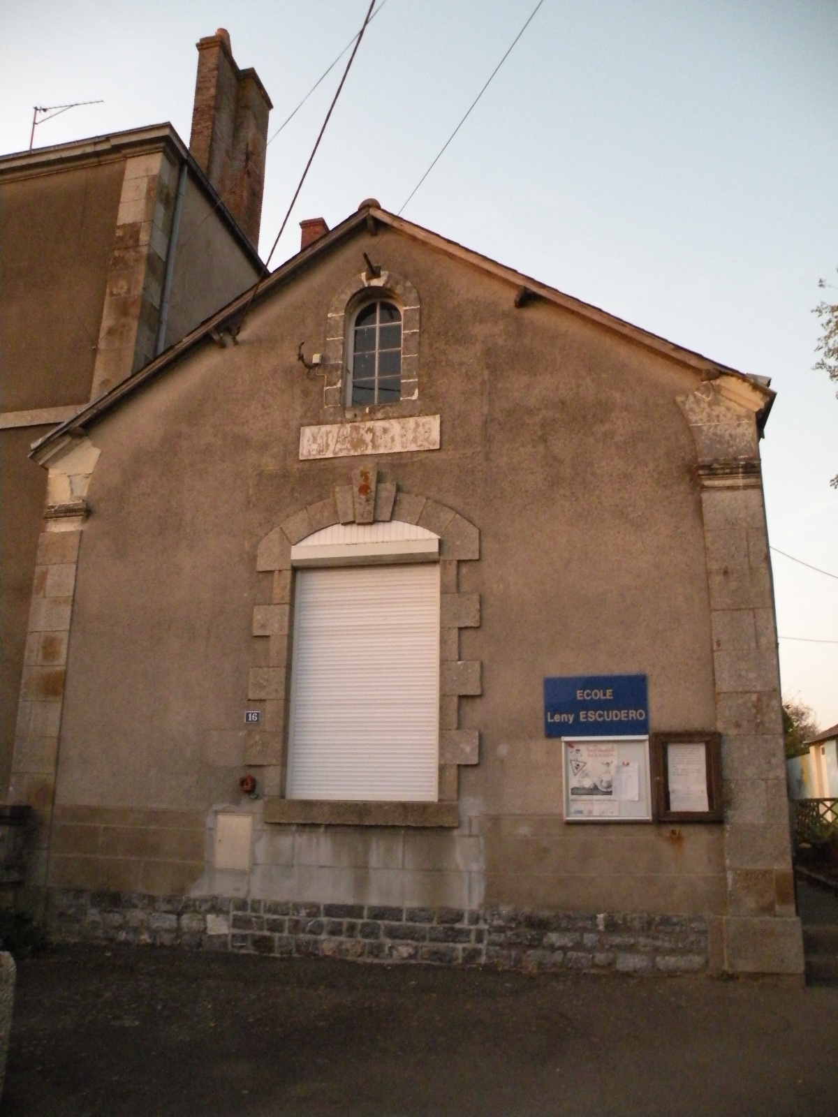 School of La Baconnière